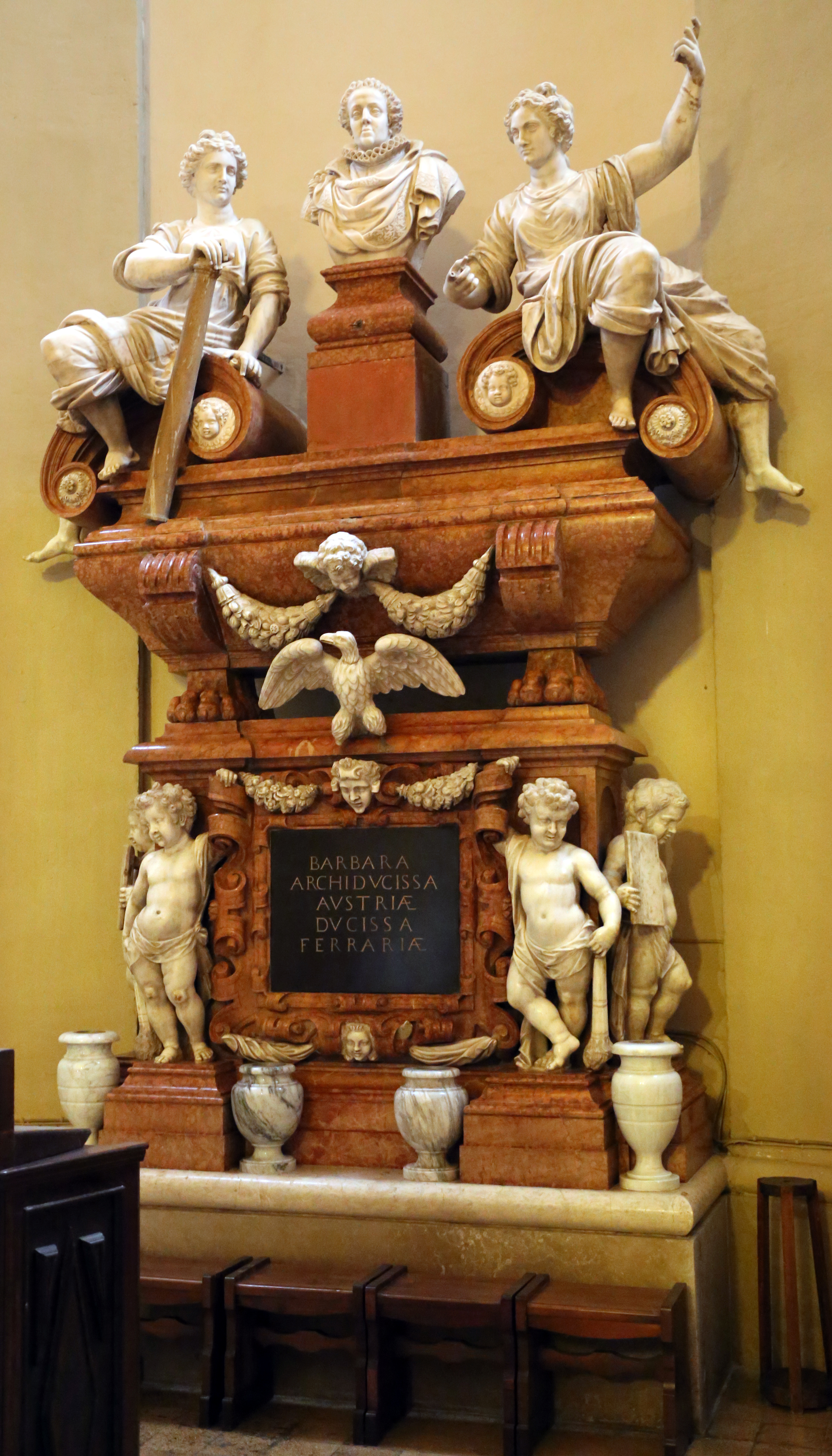 San Michele del Gesù (Ferrara) - Interior